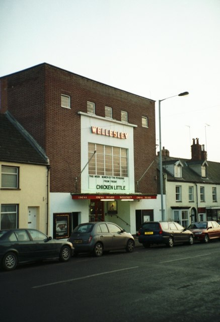 Art Deco Wellesley Cinema, Mantle Street, Wellington. The Wellesley Cinema was built in 1937, in the traditional Art Deco style of that period. The auditorium seats 400 people on two levels and is run as an independent cinema. It is said to have a striking Art Deco interior.